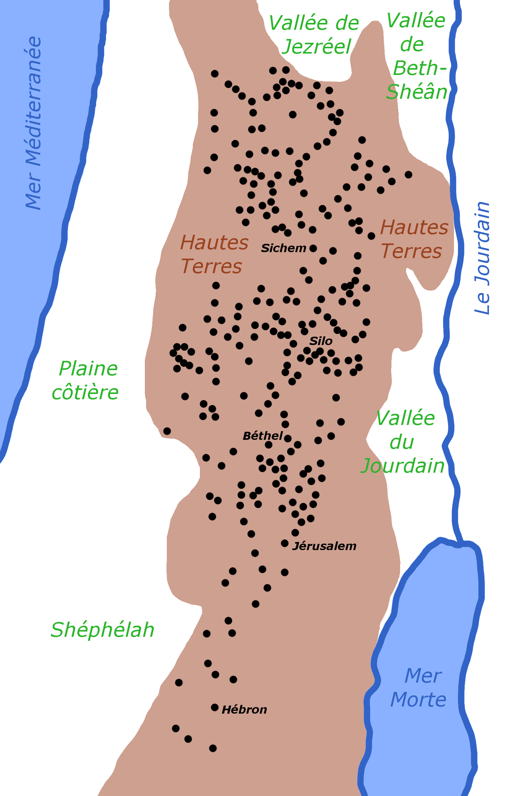 This map shows the archaeological sites of the first Israelites settlements, between the twelth and the tenth century B. C., on the Canaan Highlands. Map drawn according to the film « La Bible dévoilée », showing the result of archaeological field surveys (Israël Finkelstein).